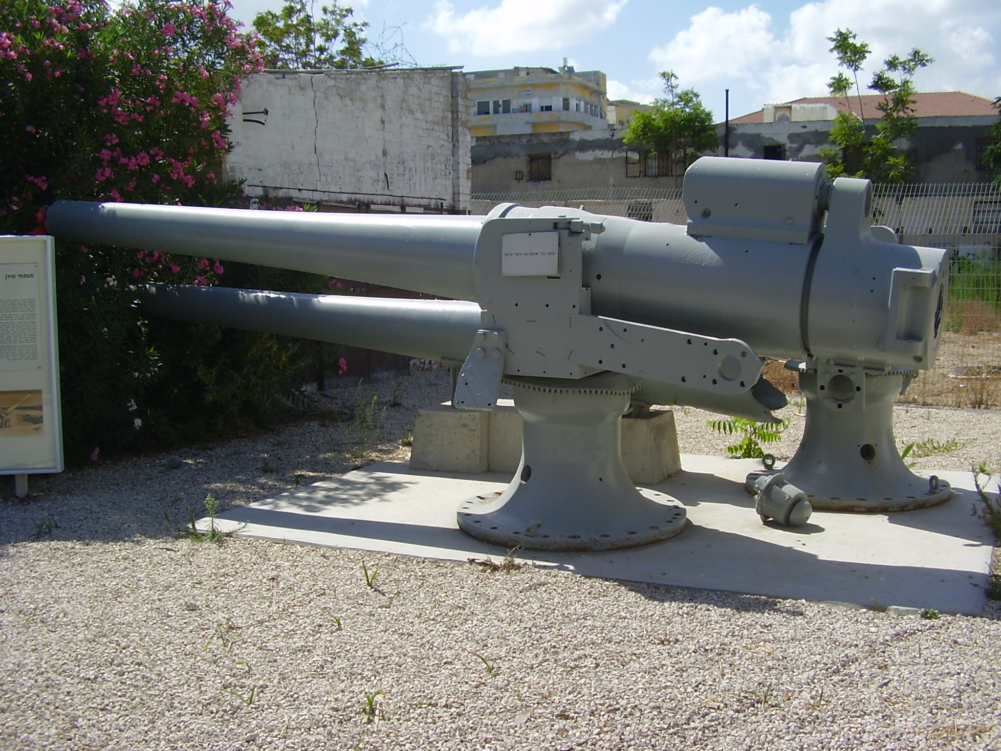 the tiran guns